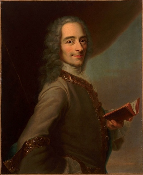 Depicted person: François-Marie Arouet (1694–1778), known as Voltaire, French Enlightenment writer and philosopher, shown holding a copy of The Henriade